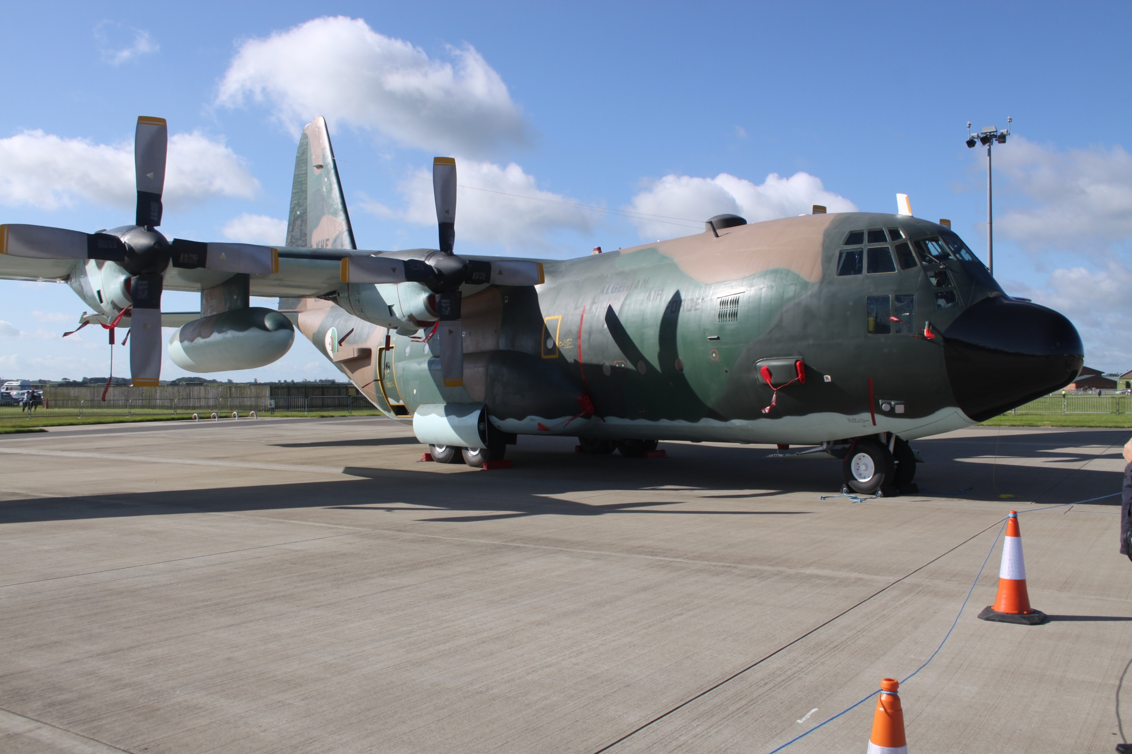 At RAF Waddington